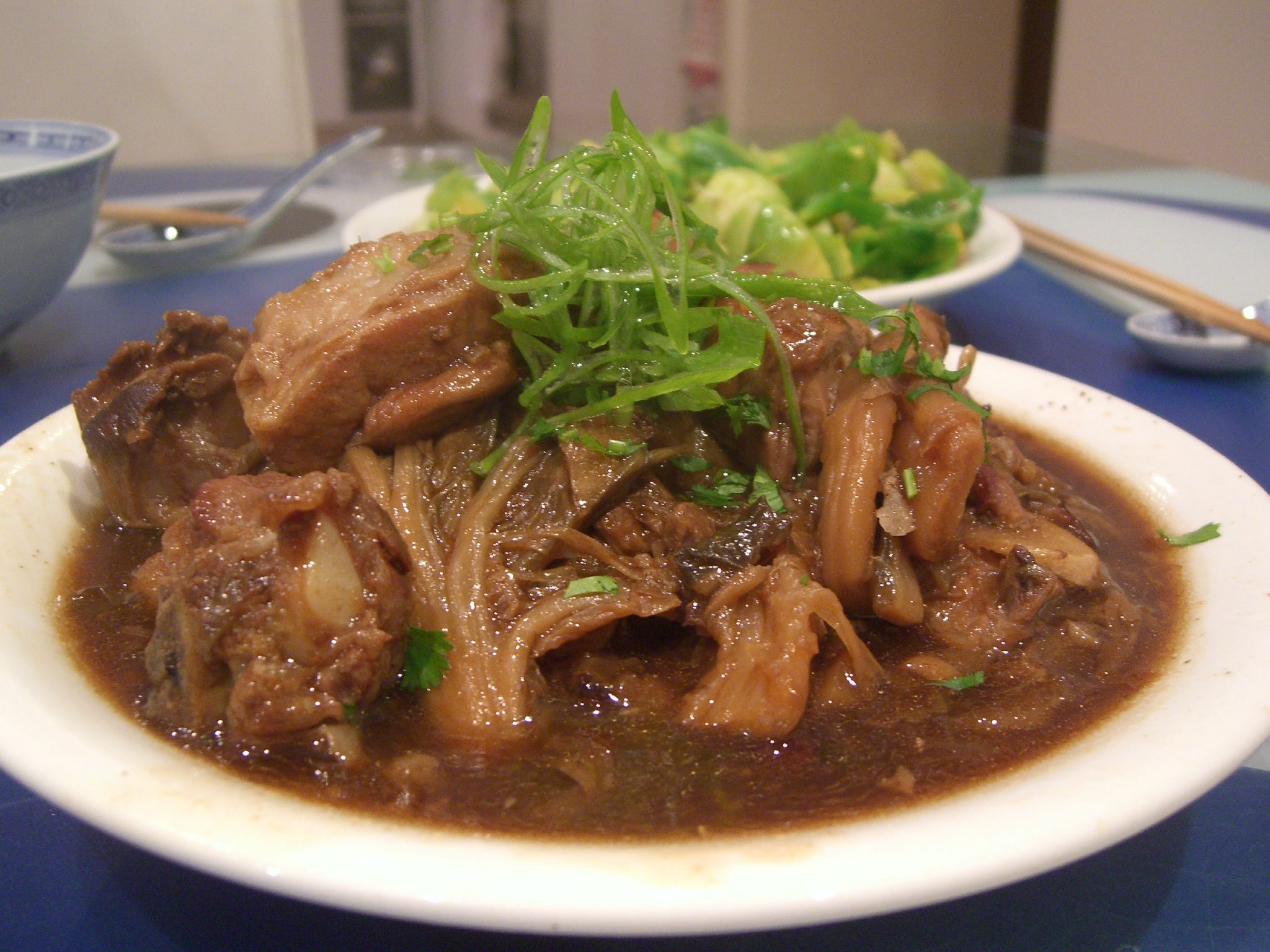 梅菜排骨 Braised Pork Spare Ribs with Preserved Mustard Greens